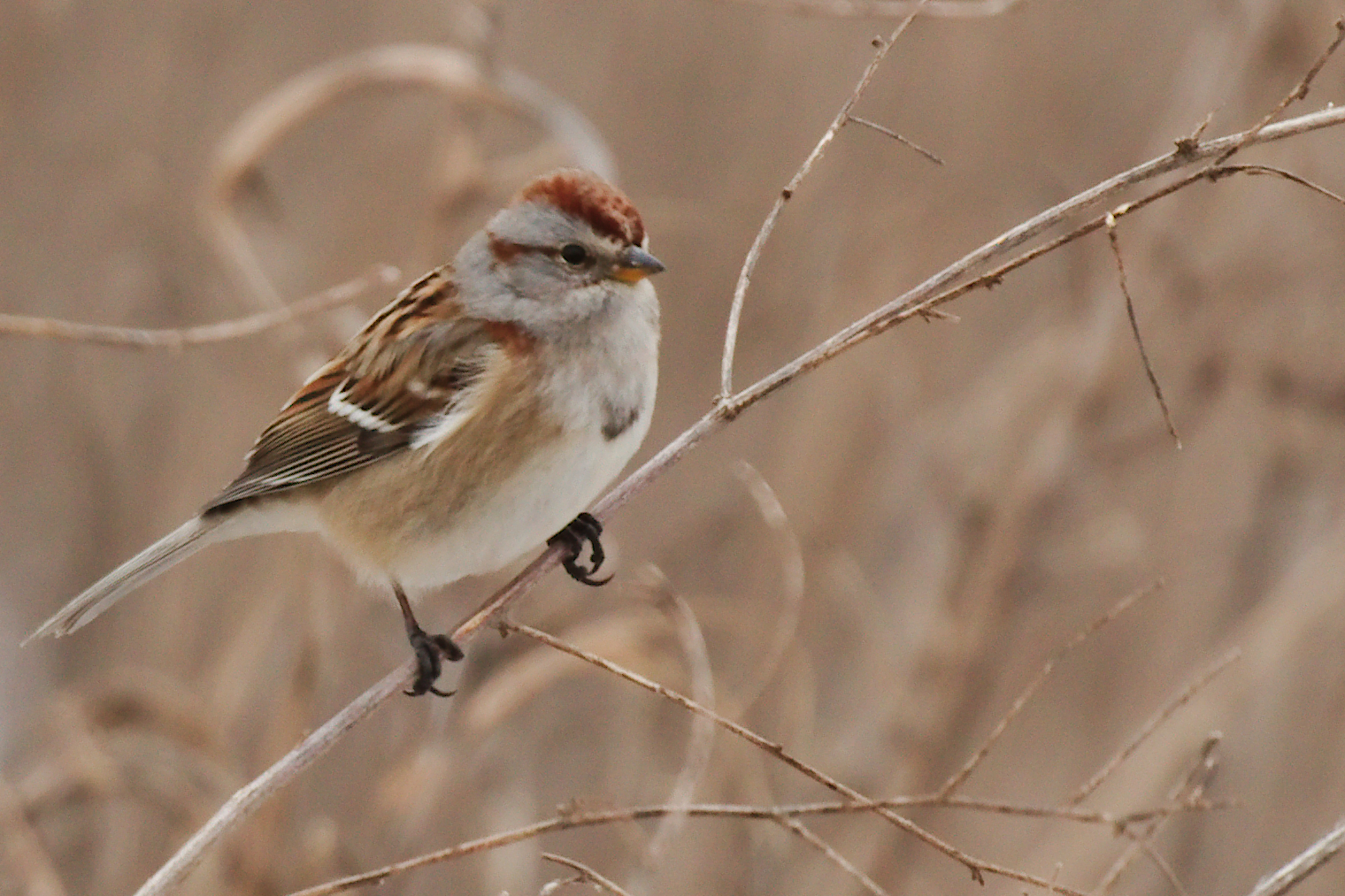 Glacial Park Ringwood, IL